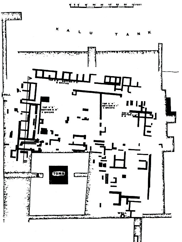 Kumhrar Gupta level ASIEC 1912-1913, vol. 1, pl. 1029